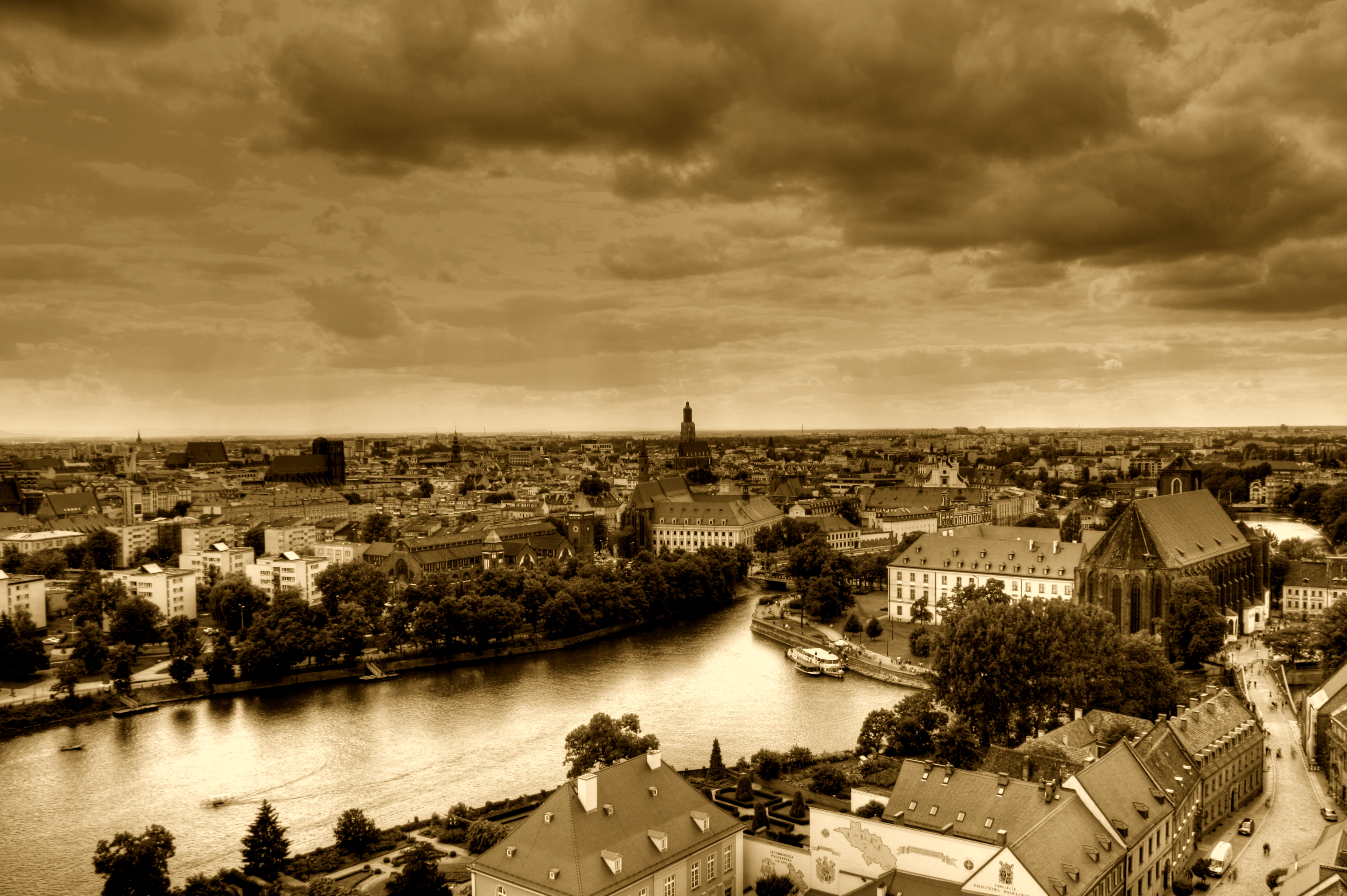 View of the river Odra from the campanile of the Cathedral of the Polish city Wrocław...